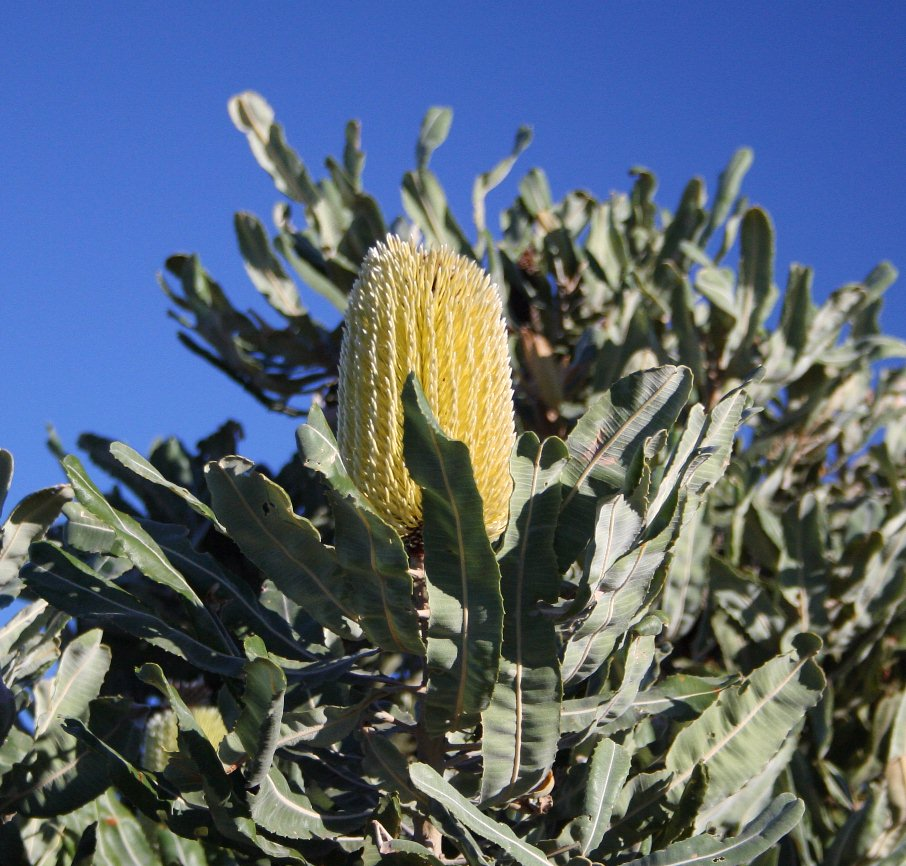 Banksia menziesii, yellow flowered in late bud near Cataby April 2006 Photo - Cas Liber